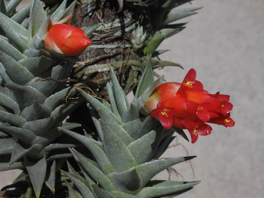 Tillandsia edithae, in cultivation at the Botanical Garden of Heidelberg, Germany.